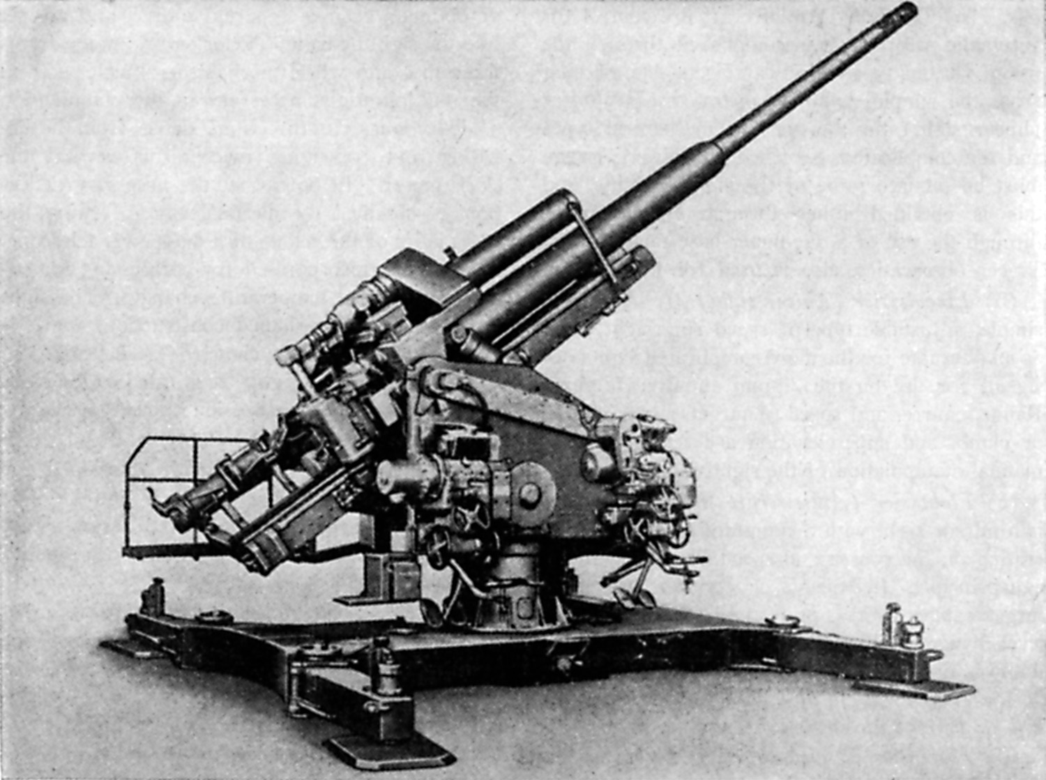 A Second World War German 12.8 cm Flak 40 anti-aircraft gun on a static mounting.